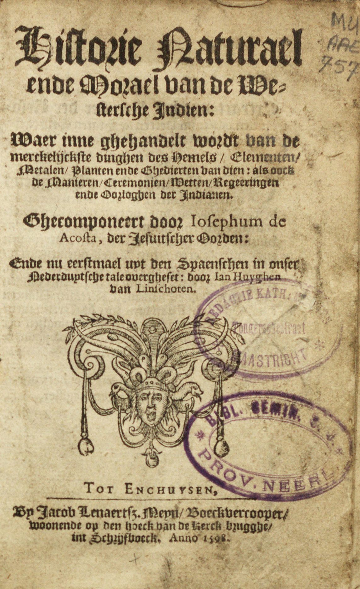 Title page of Dutch translation of Historia natural y moral de las Indias (1590)